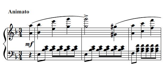 Opening of Schumann's Abegg Variations, op. 1